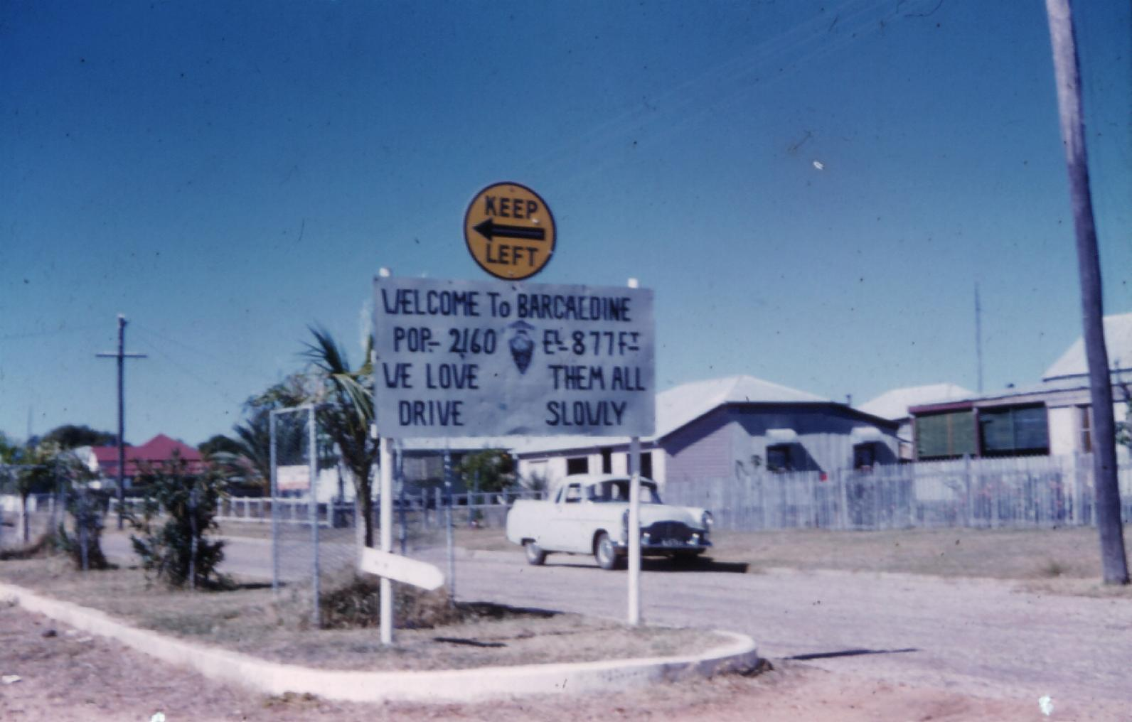 From this photo Barcaldine in western Queensland had no resident signwriter in 1962.